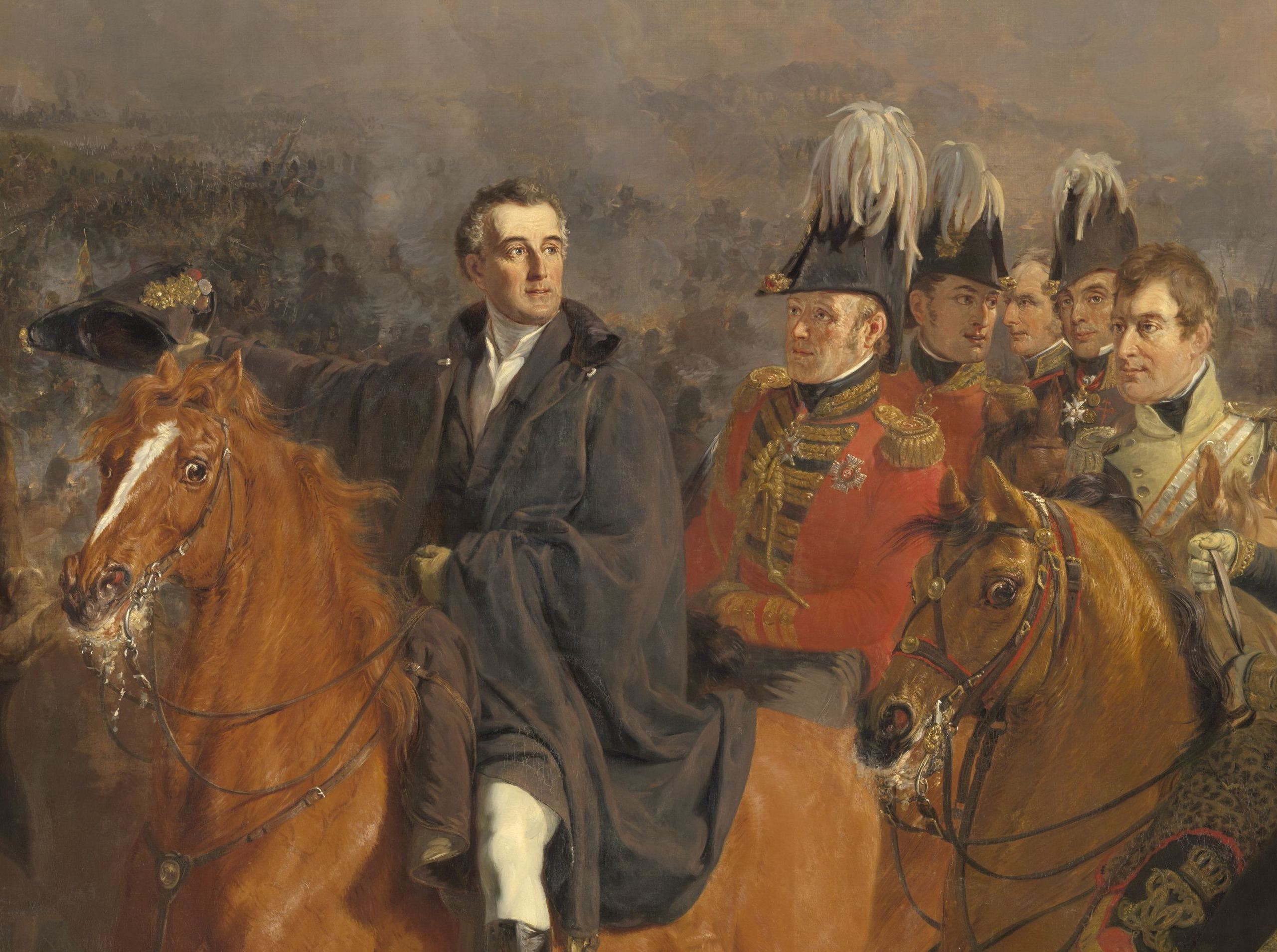 Close up in more detail of Pieneman's Battle of Waterloo.